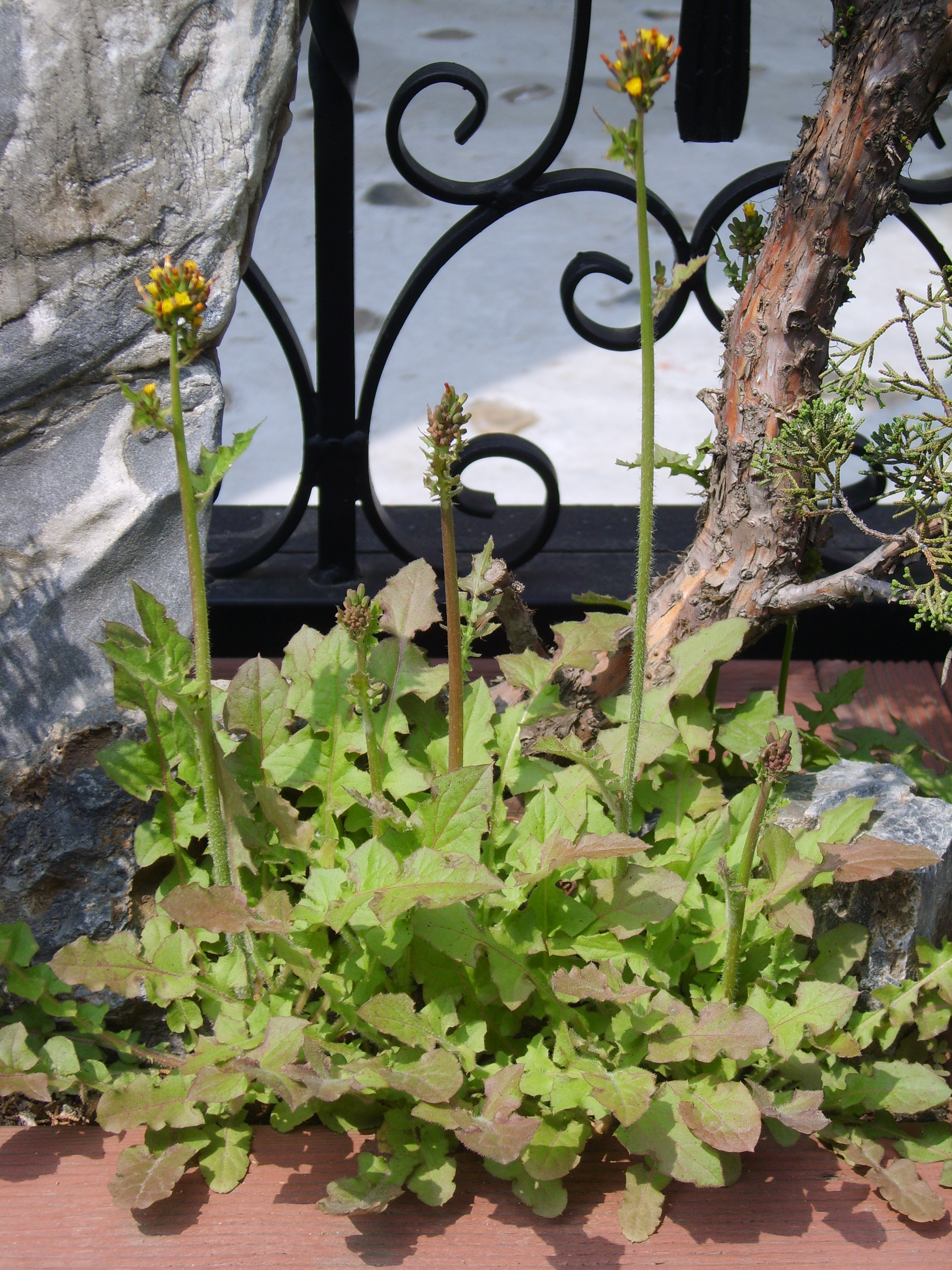 Youngia japonica in Bupyung, Korea